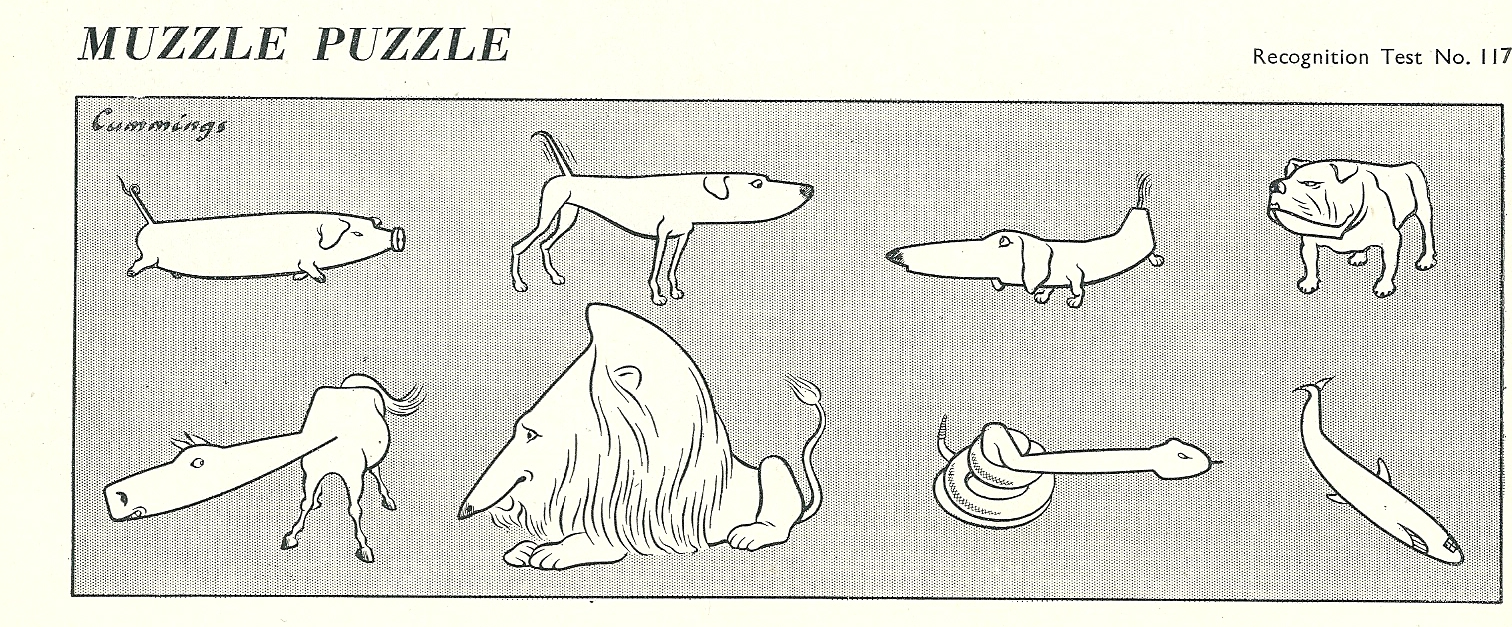 Muzzle Puzzle, a Michael Cummings cartoon and aircraft recognition test. Each cartoon disguises the nose of a World War II aircraft. The aircraft depicted in this cartoon are: Top Row L-R Junkers Ju 52, Kawanishi H8K, North American P-51 Mustang, Short Sunderland; Bottom Row L-R Republic P-47 Thunderbolt, Supermarine Spitfire, Junkers Ju 188, Curtiss-Wright C-46 Commando